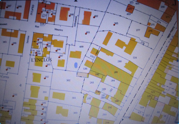 Lezoux, Puy-de-Dôme, Auvergne, France. Location of ZAC de l'Enclos, archaeological gallo-roman pottery site.